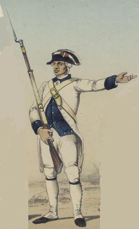 Fusilero del regimiento de Asturias (Años de 1780 á 1789)